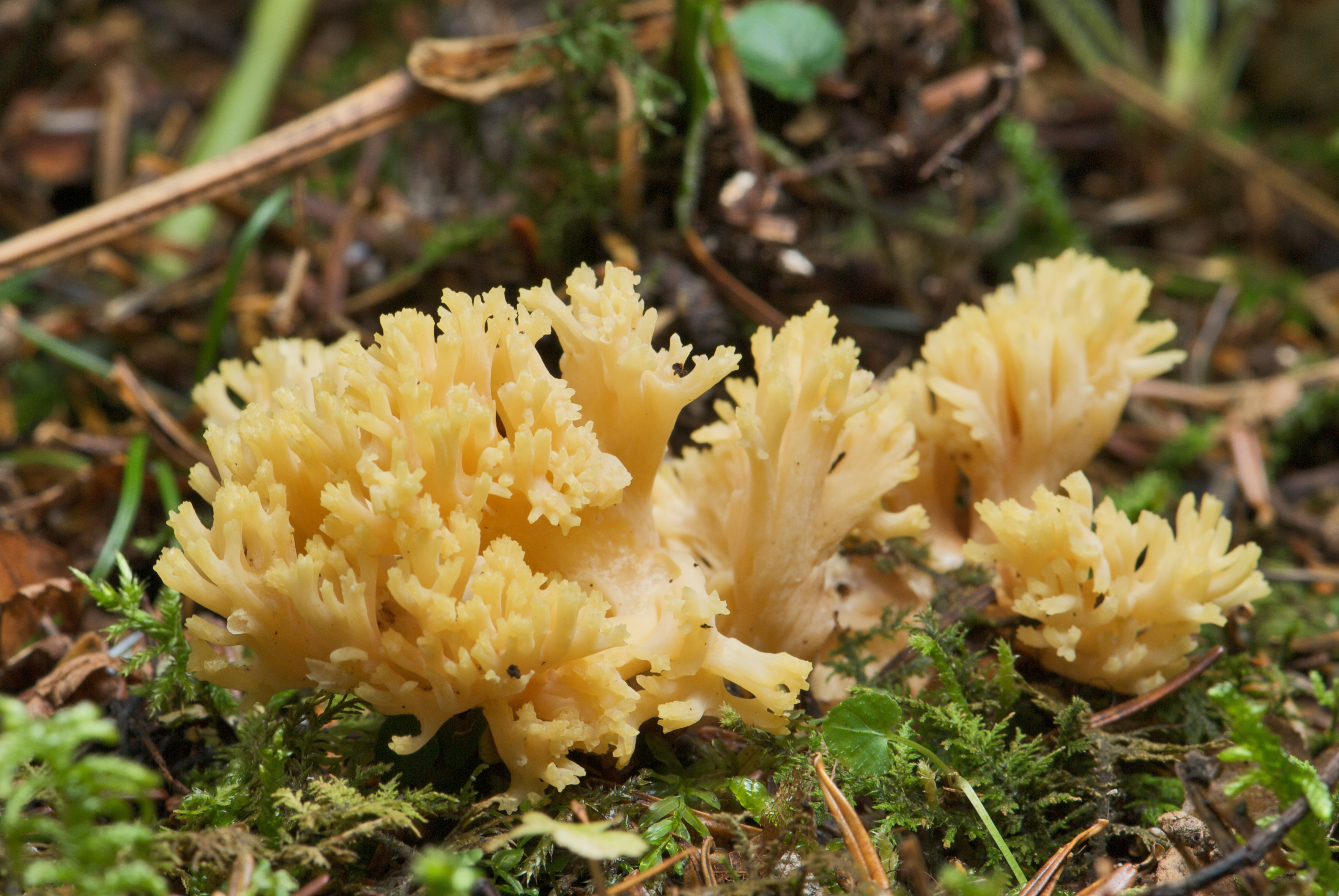 Ramaria flava is a fungus of the genus Ramaria. The sporocarp in the picture is still in the early stage of its development and has been growing for about six days. It measures about 48 mm in height and 107 mm in length (left to right).